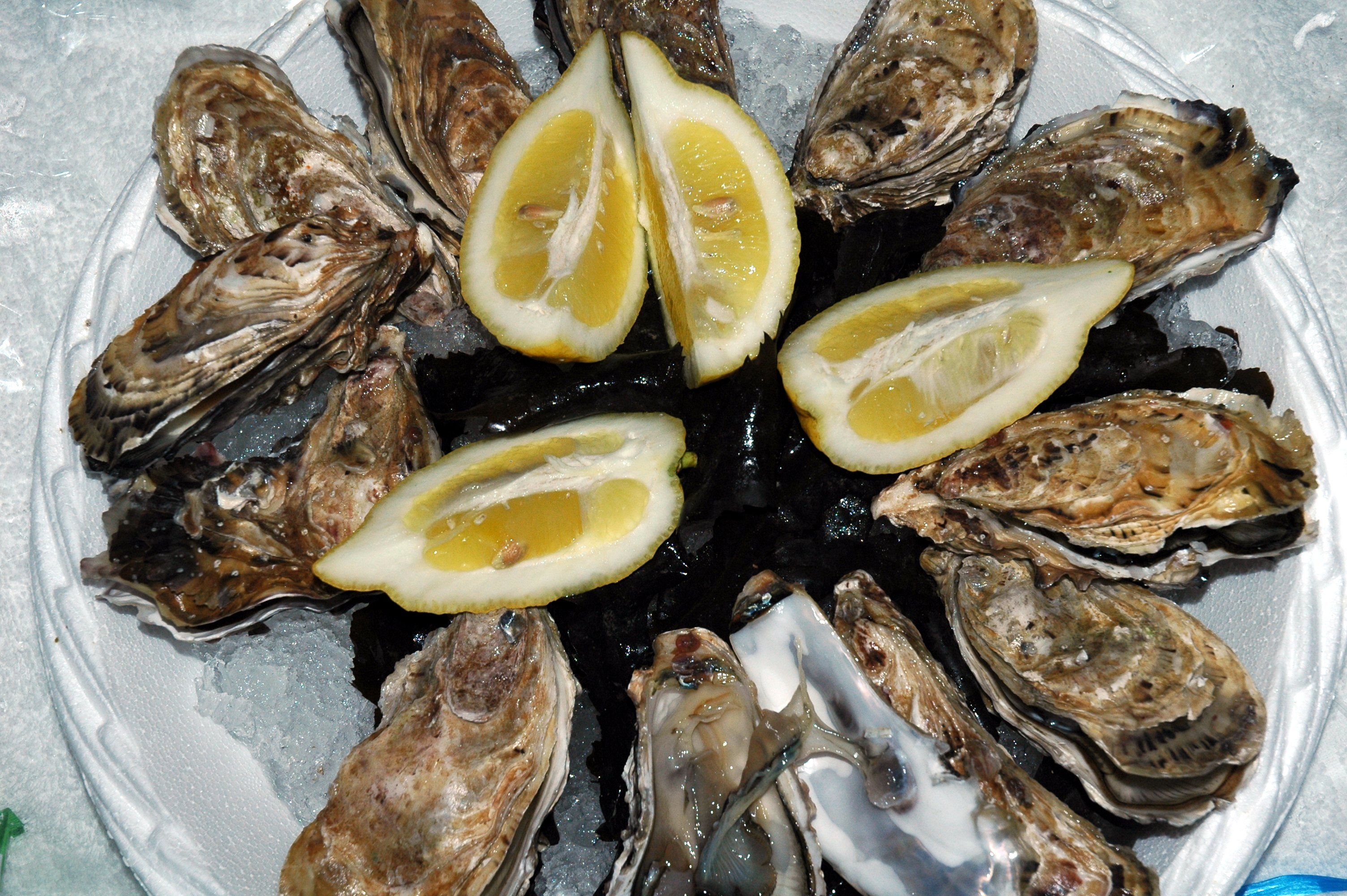 Cancale Bay oysters, Cafe de Saint-Malo.